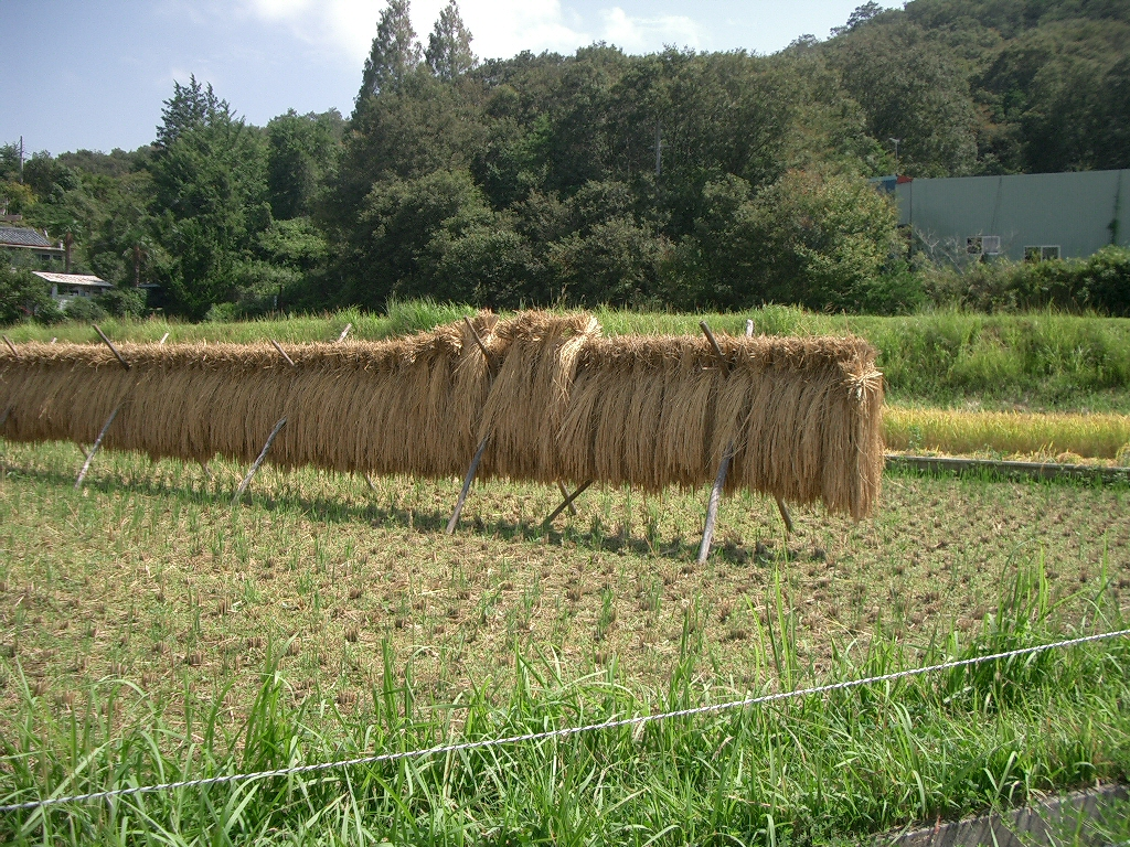 Rice field after its harvest, drying rice bundle. 刈田；稲刈り後の天日干し（宝塚市自然休養村：2004年9月12日撮影）